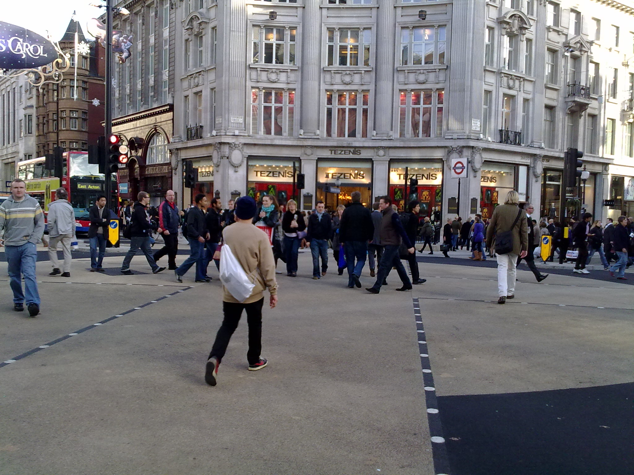 Unveiled today, a Tokyo-style X-crossing that allows you to go diagonally across Oxford Circus rather than have to do it in two stages..